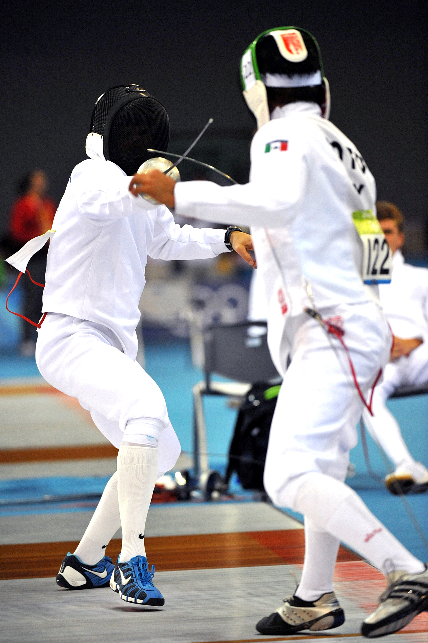 U.S. Air Force World Class Athlete Program Capt. Eli Bremer, left, squares off against Mexico's Oscar Soto in the epee one-touch fencing portion of the Olympic men's modern pentathlon in Beijing, Aug. 21, 2008. Bremer had 14 victories and 21 defeats worth 736 modern pentathlon points to finish in a four-way tie for 29th place in fencing. He finished 23rd overall with a modern pentathlon total of 5,204 points.